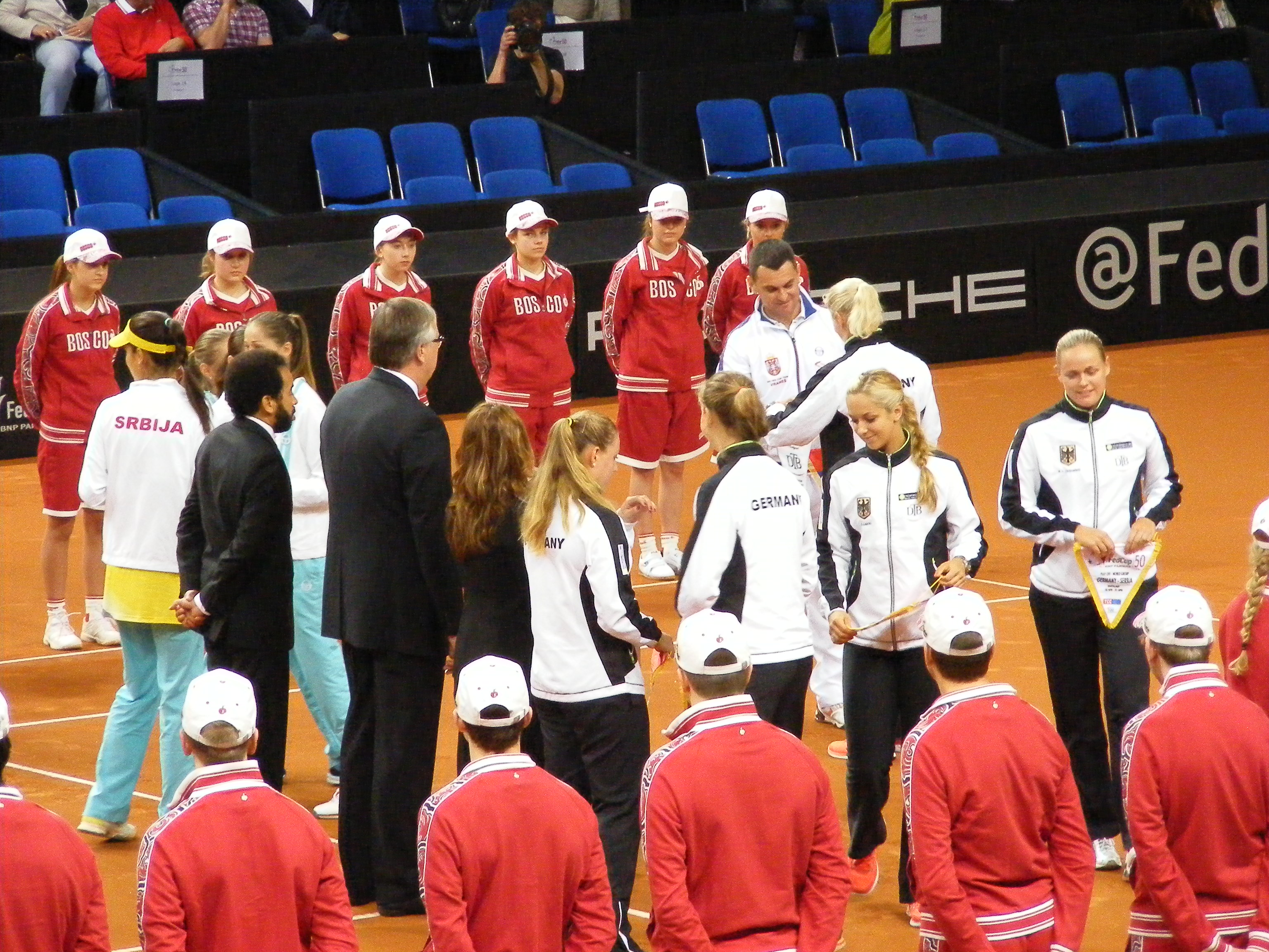 wimple exchange Fed Cup 2013 Germany vs Serbia